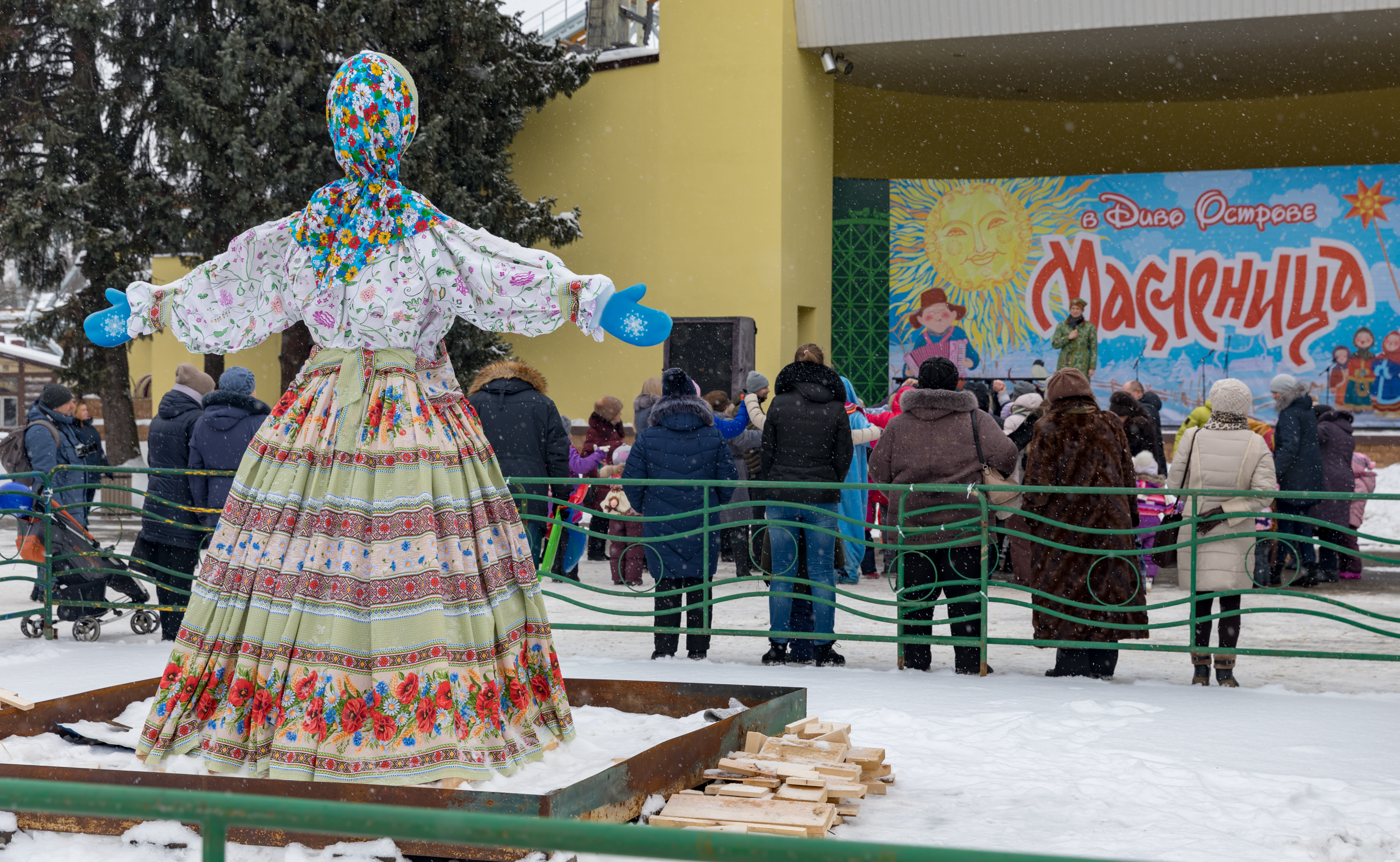 Maslenitsa on Krestovsky Island, Petersburg, Russia